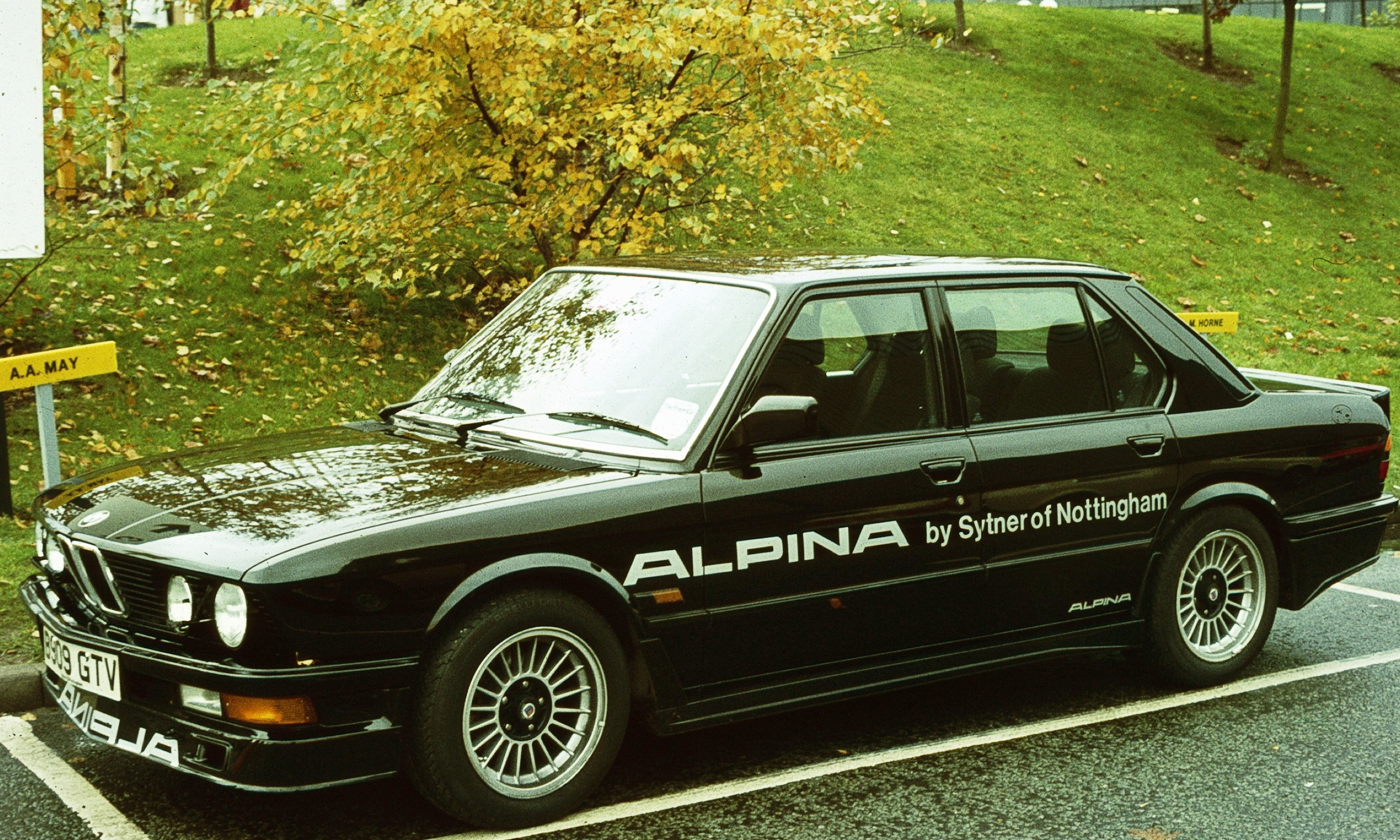 1984 BMW E28 Alpina, a B9 3,5 assembled by Sytner. Listed as having 3593cc, mysterious as it ought to be 3453cc. First registration 10 October 1984, untaxed since 1 January 2002.